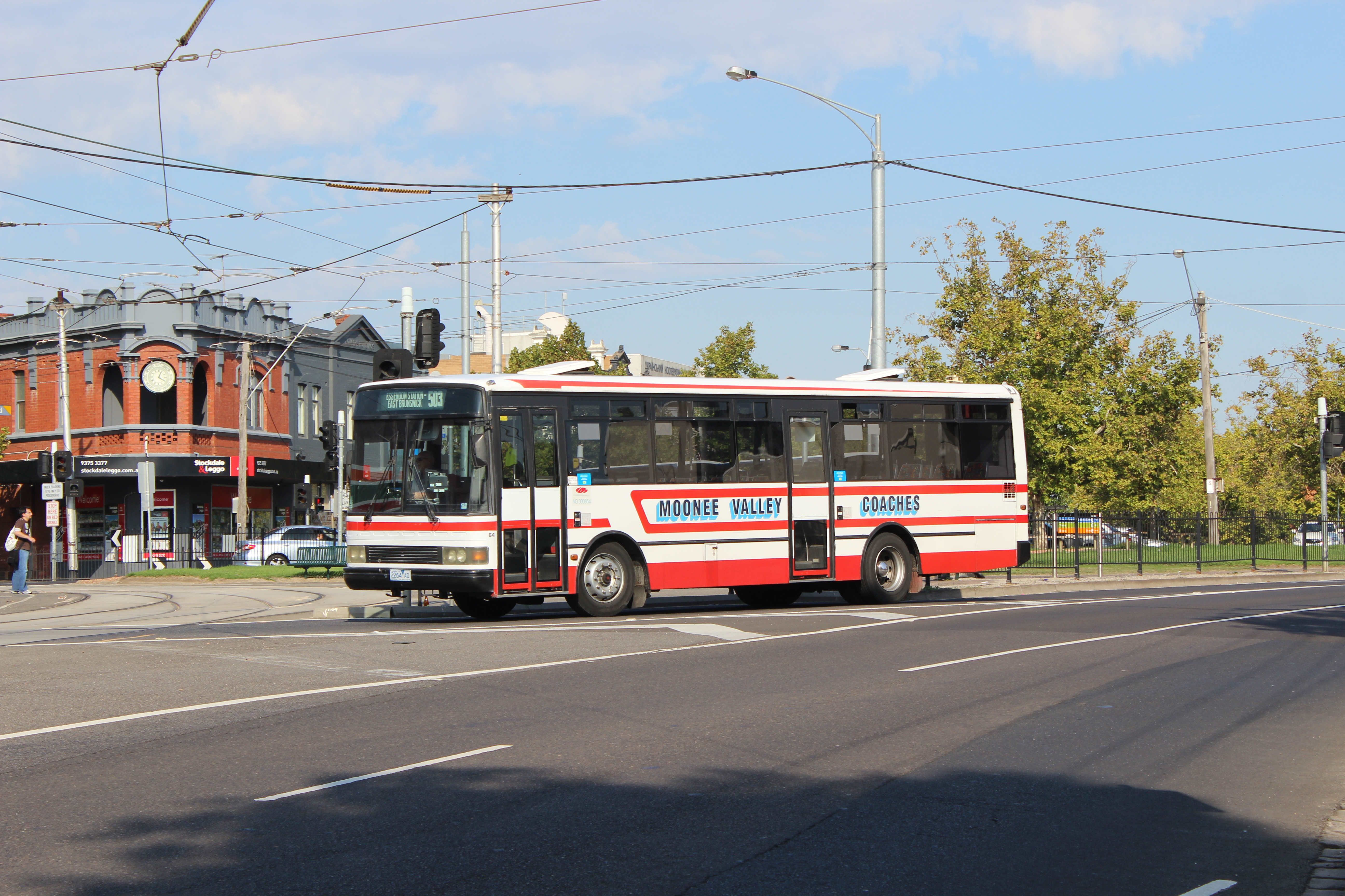 Moonee Valley Coaches bus on Mount Alexander Road on route 503, 2013